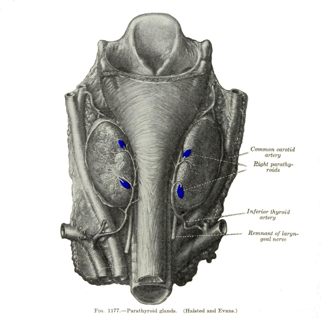 Based on